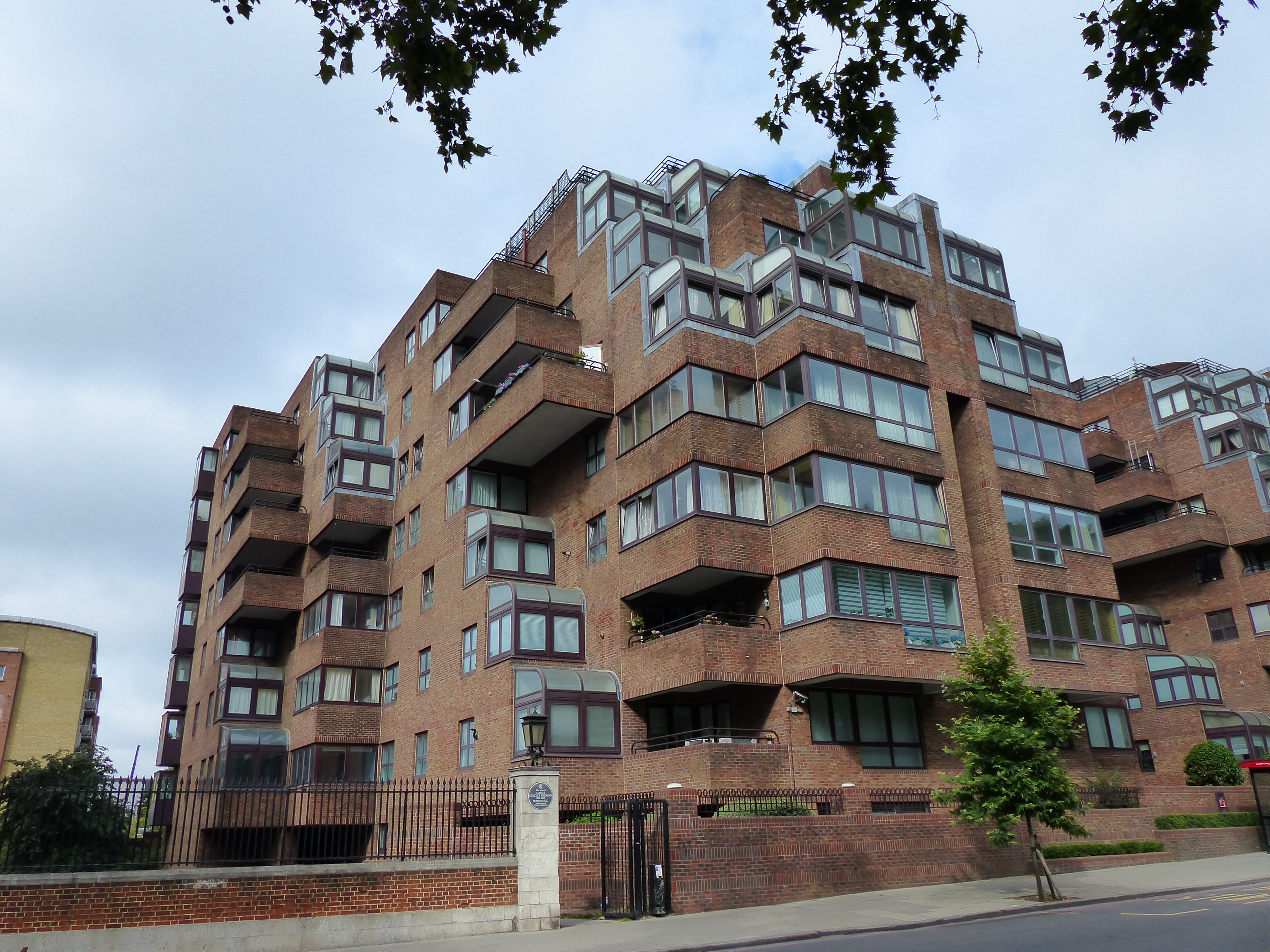 The second Lord's Cricket Ground location